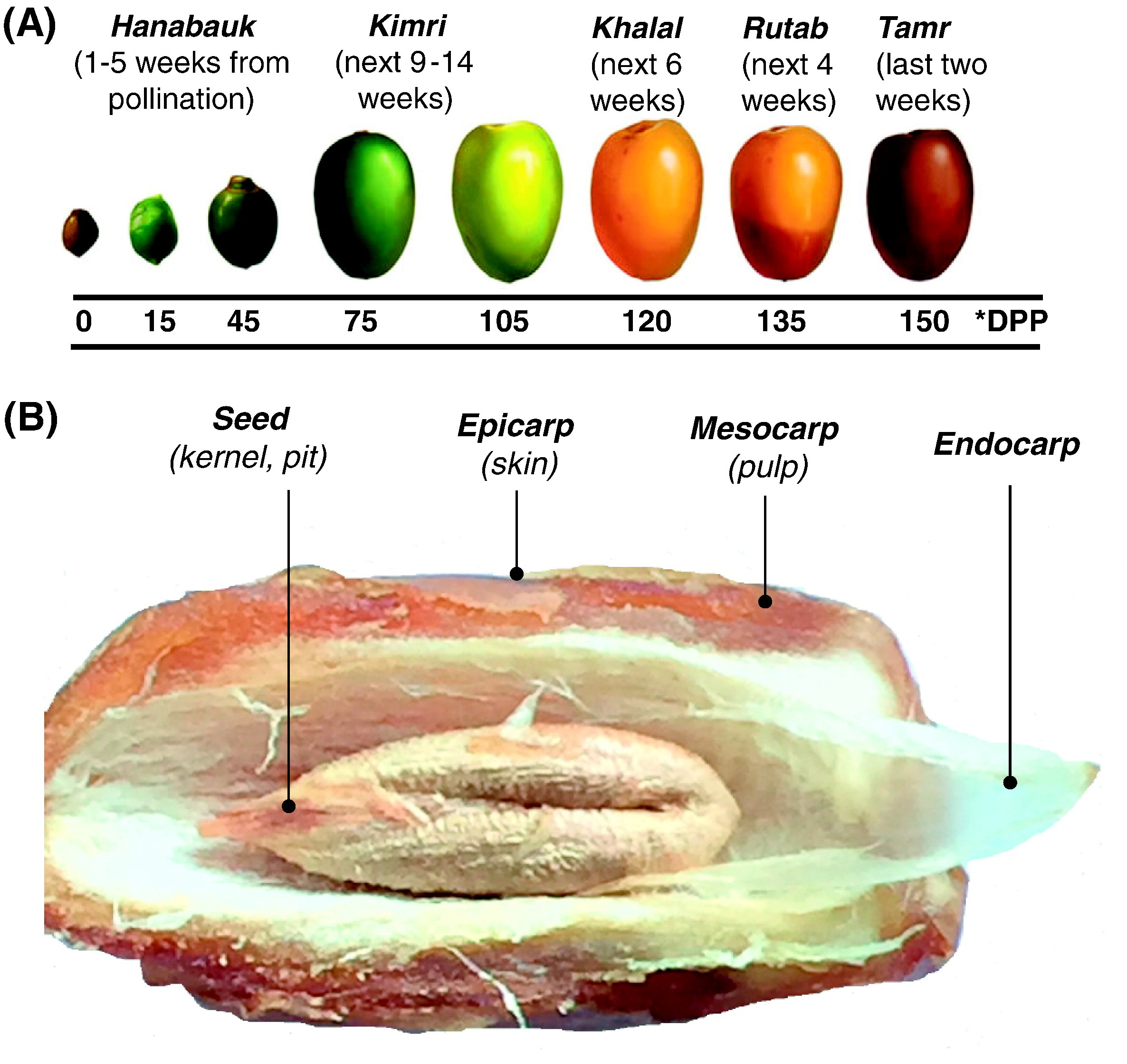 date fruit